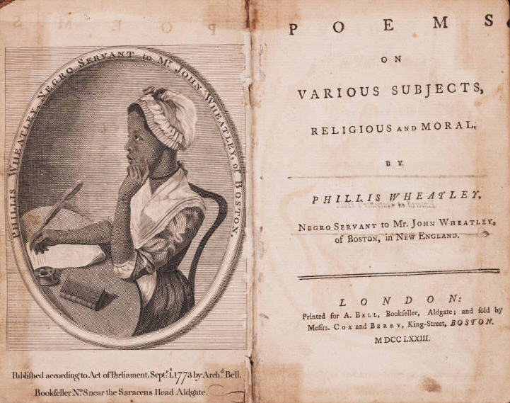 Frontispiece and title page of: Phillis Wheatley (1753-1784): Poems on various subjects, religious and moral. By Phillis Wheatley, Negro servant to Mr. John Wheatley, of Boston, in New England. London: Printed for A. Bell, bookseller, Aldgate; and sold by Messrs. Cox and Berry, King-street, Boston. 1773.